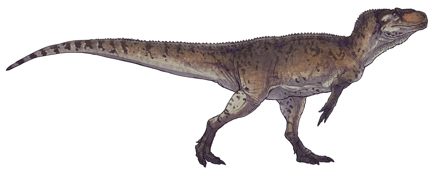 Piatnitzkysaurus floresi reconstruction based on PVL 4073.